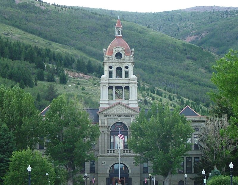 Deer Lodge County Courthouse in Anaconda, Montana, USA